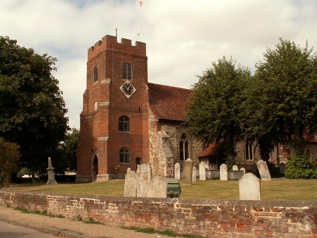 St. Thomas' church, Bradwell on Sea, Essex. Apart from the brick tower built in 1706, the church is 14th century with restoration work carried out in 1864. It stands at the heart of the village surrounded by some very interesting old houses.